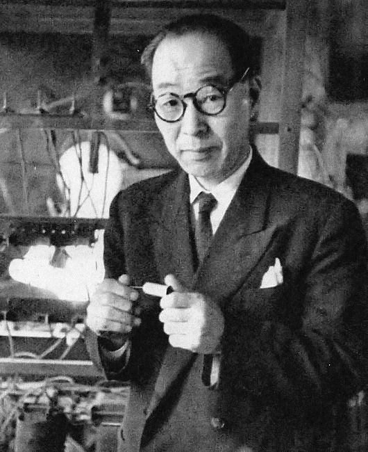 Shiro Murano